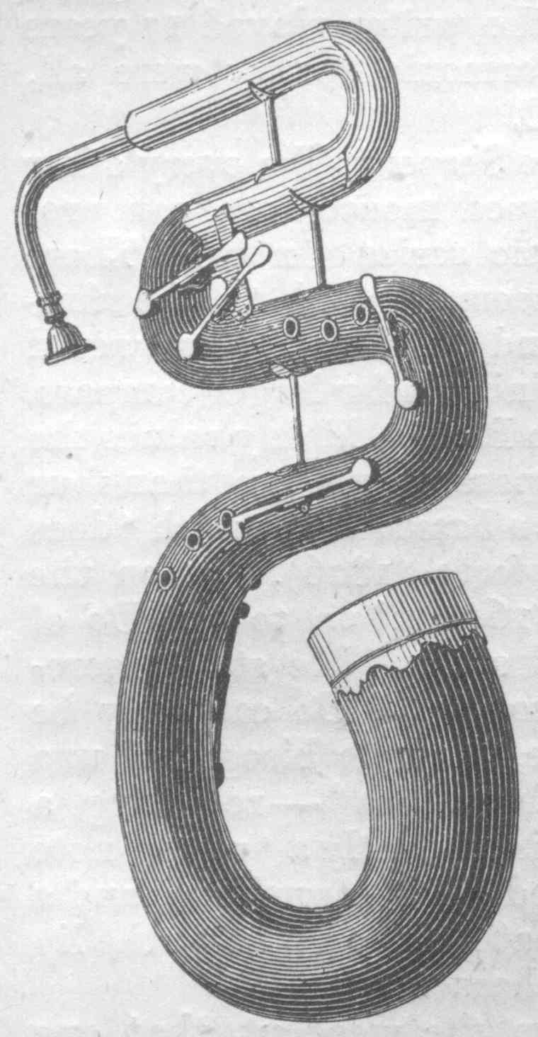 Illustration of the brass instrument known as the serpent, from Grove's Dictionary of Music and Musicians, 1883, vol 3 p 469. This is an original scan by Andrew Alder from an old book in his personal collection.